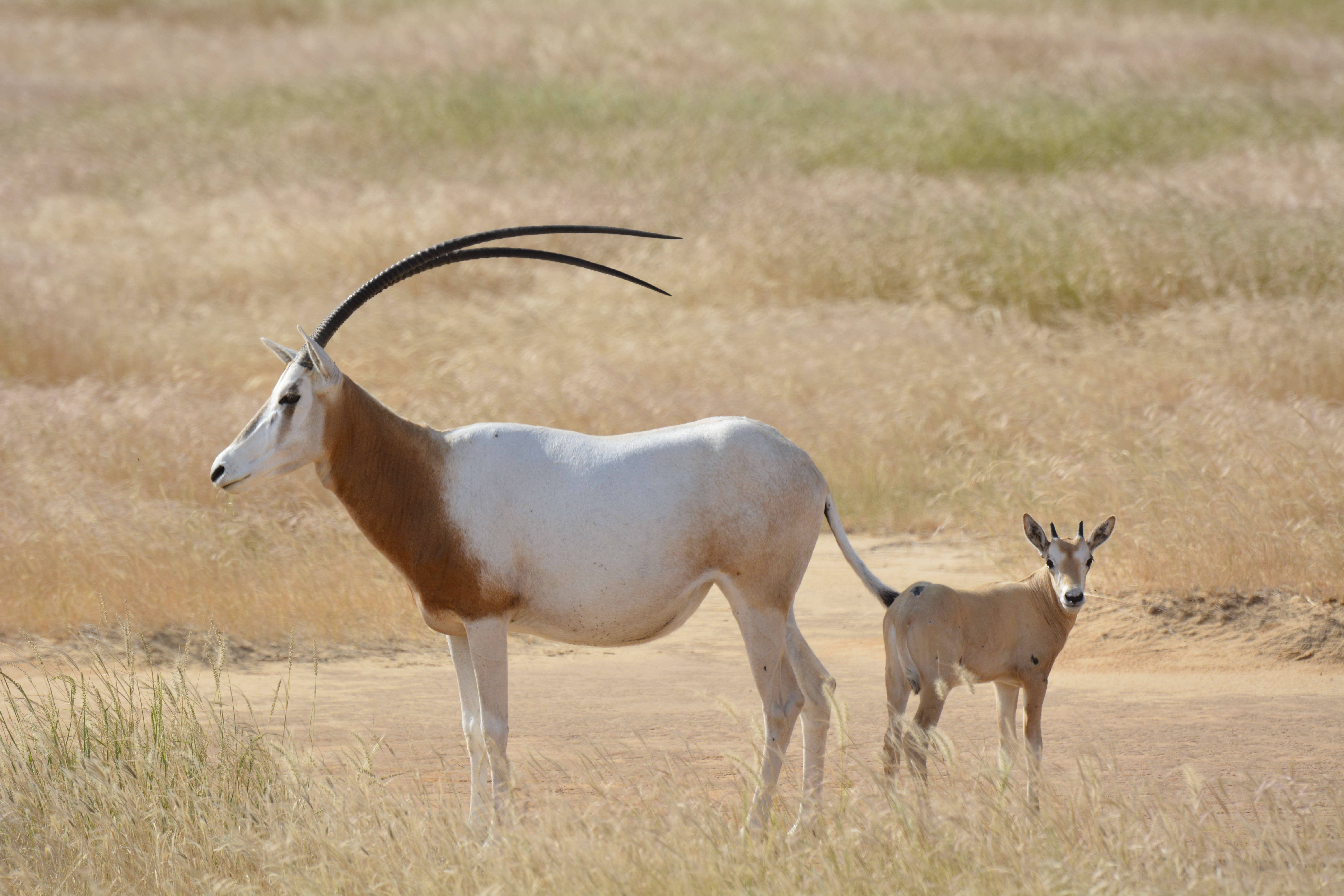 Scimitar-horned oryx (mother and calf) released in Chad